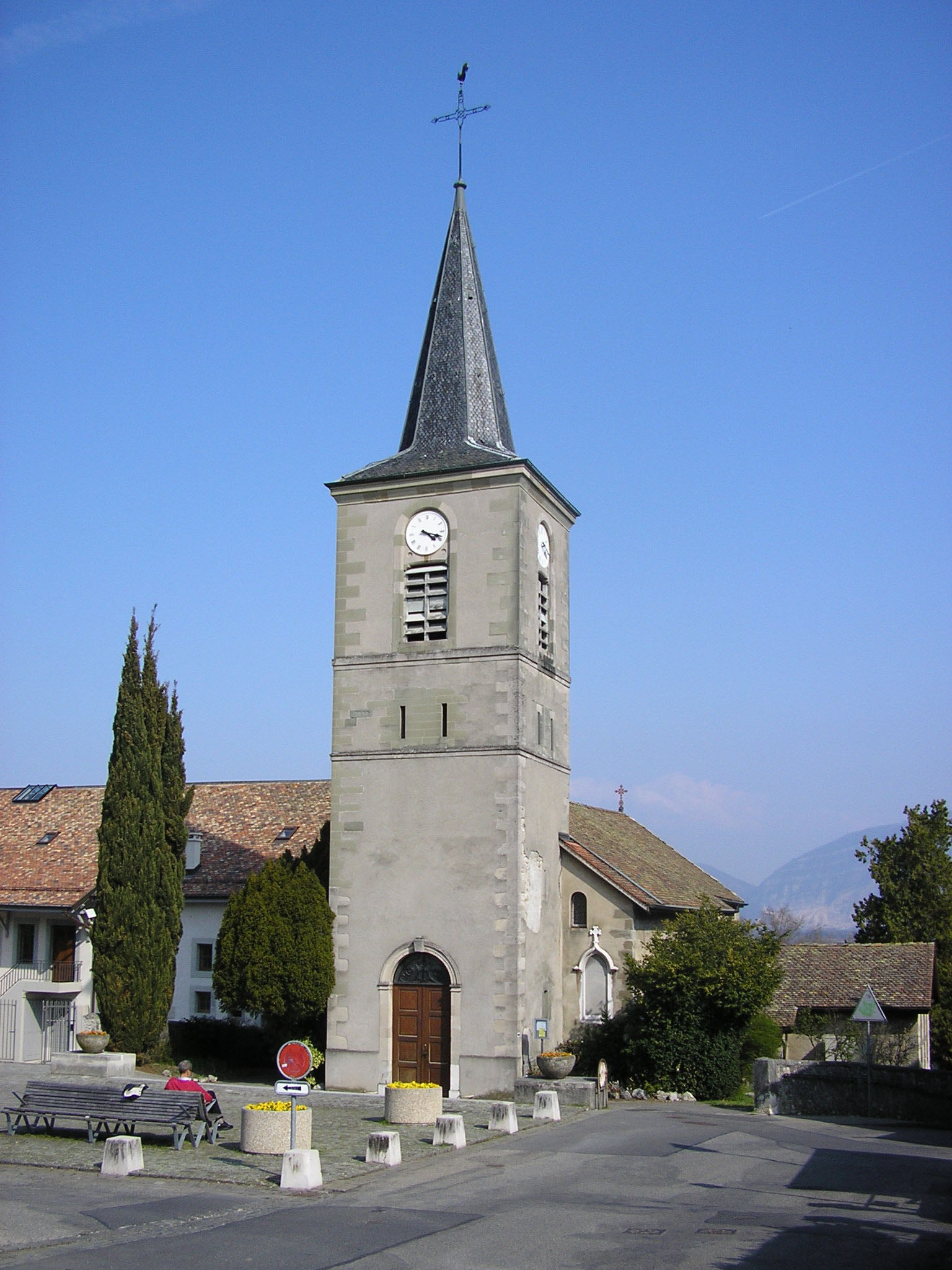 Church of Confignon